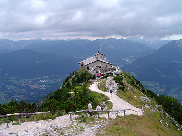 The Kehlsteinhaus, Bavaria, Germany